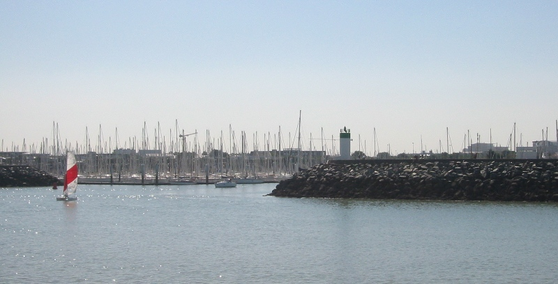 Entrance to the Les Minimes harbour. Personnal photograph 2005